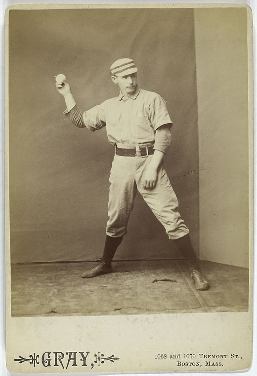 Ed Daily, Philadelphia Quakers, circa 1886